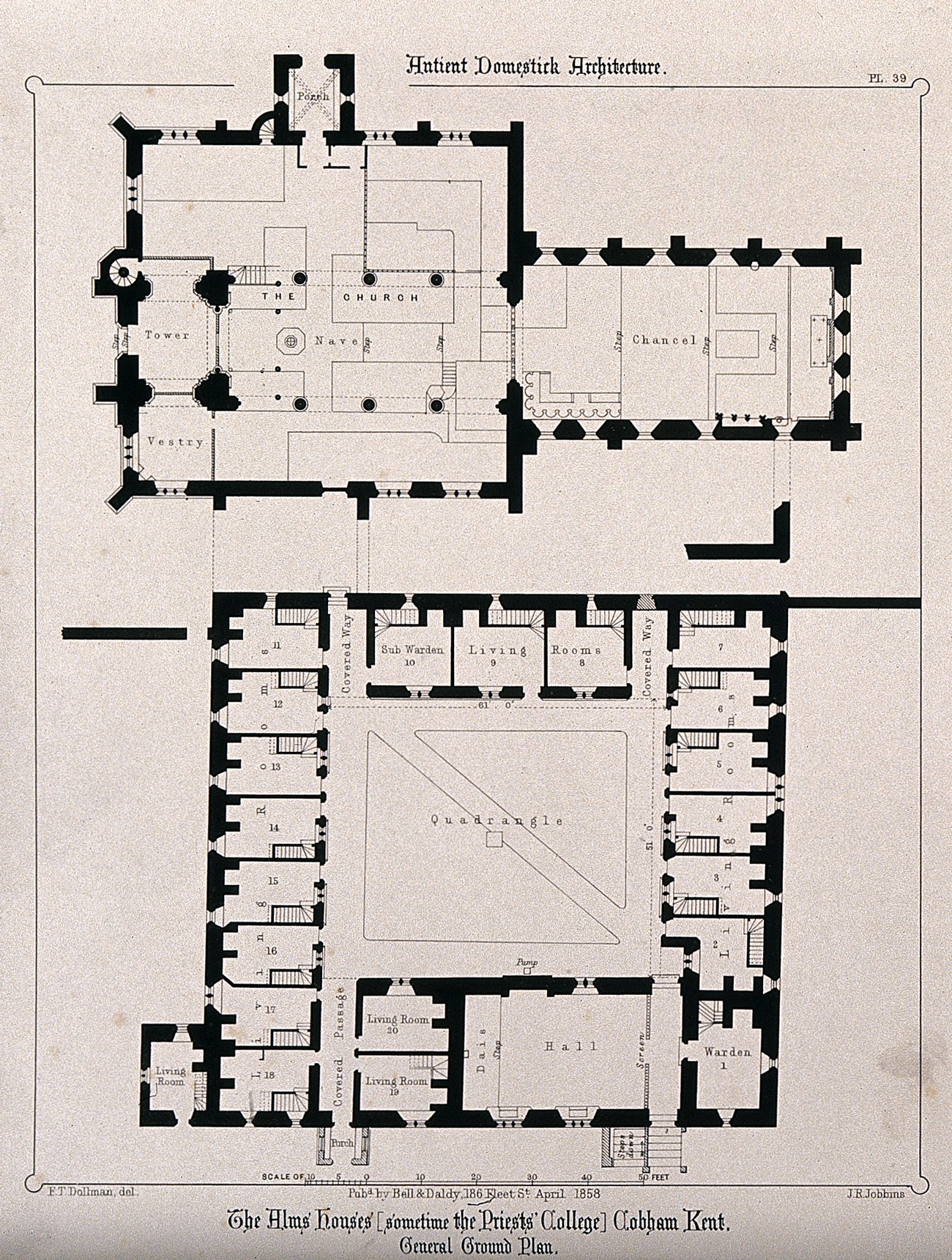 The Alms houses (formerly Priests' College), Cobham, Kent: floor plans. Transfer lithograph by J.R. Jobbins, 1858, after F.T. Dollman. Iconographic Collections Keywords: John Richard Jobbins; Francis Thomas Dollman